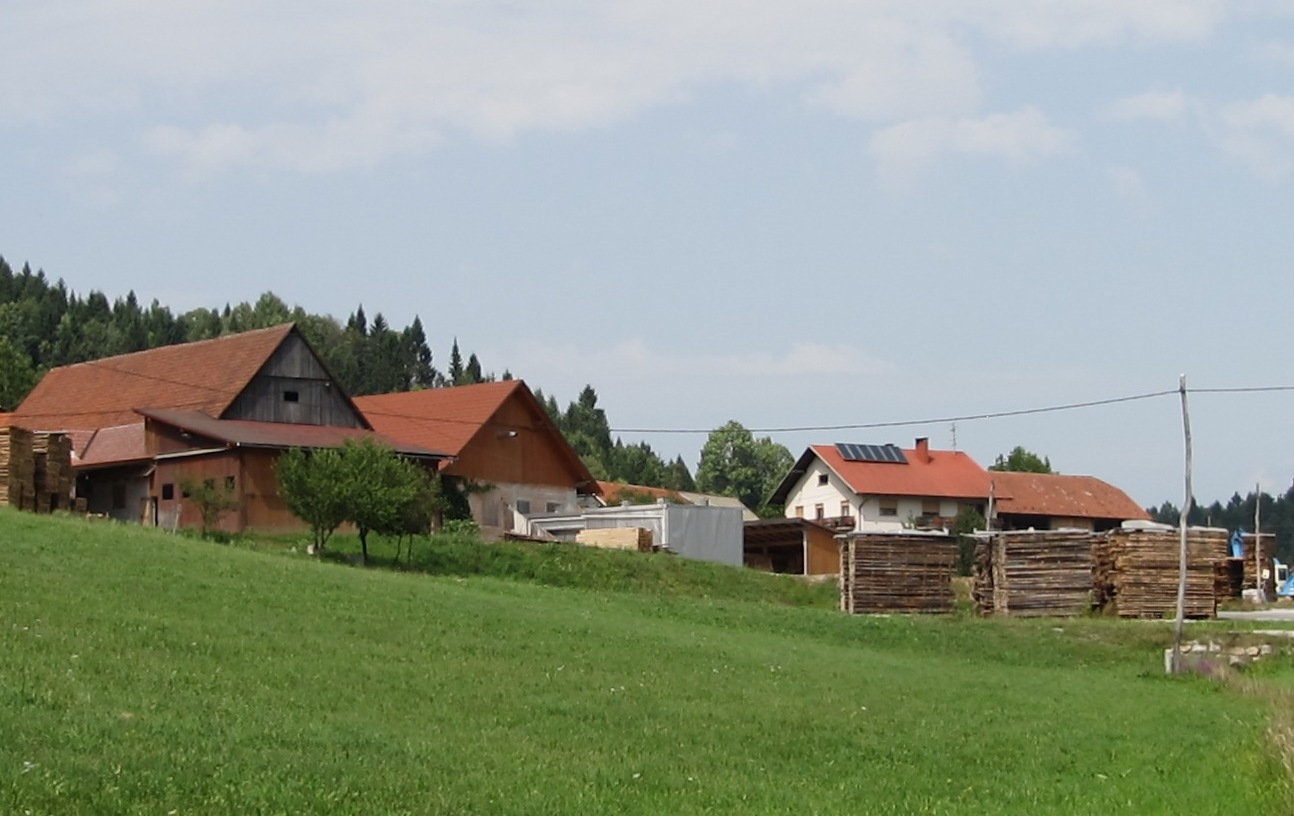 The village of Hlevni Vrh, Municipality of Logatec, Slovenia